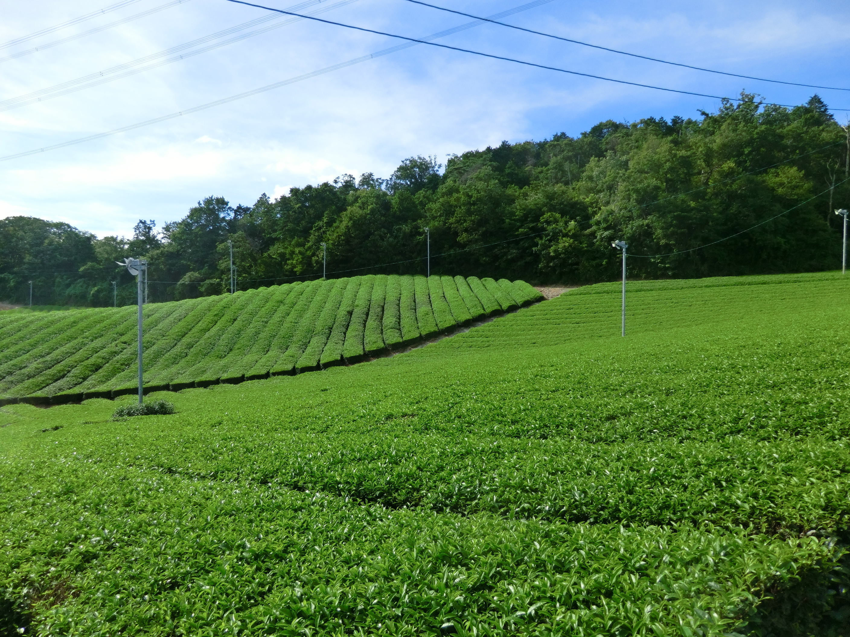 Ōmi Tea garden, Mushouno, Minakuchi, Koka, Shiga, Japan